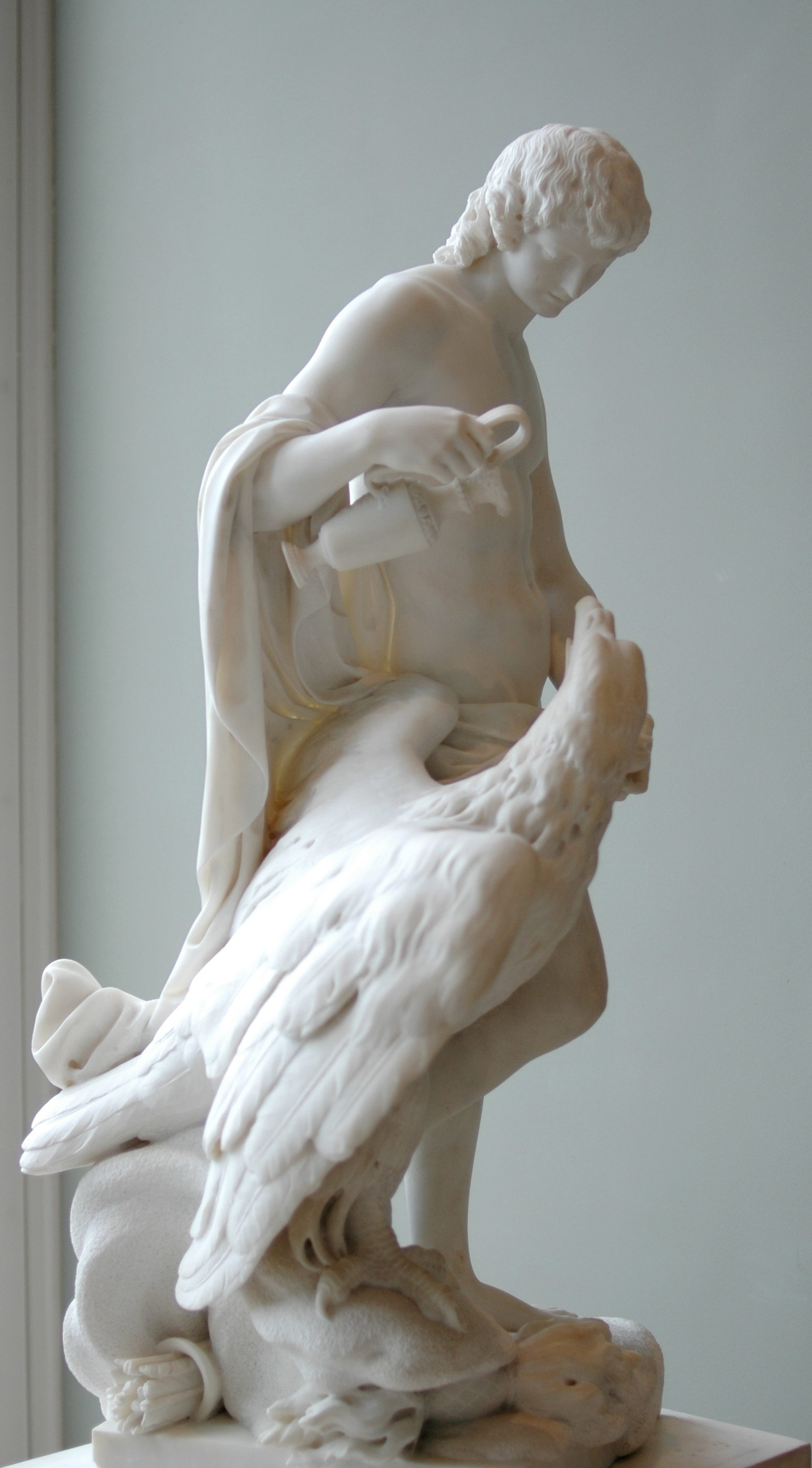 Reception piece for the French Royal Academy, 1776-1778.